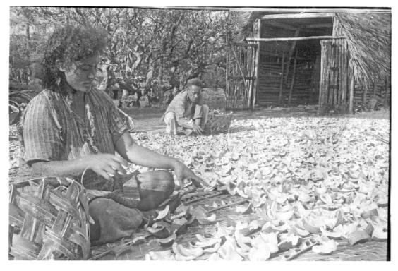 Niuafoʻou people drying copra in the sun, for Lord Fusitu'a (visible in the back). Sapaʻata, Niuafoʻou, 1967.